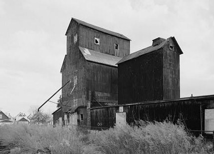 Wollenberg Grain & Seed Elevator, 133 Goodyear Avenue, Buffalo, Erie County, New York